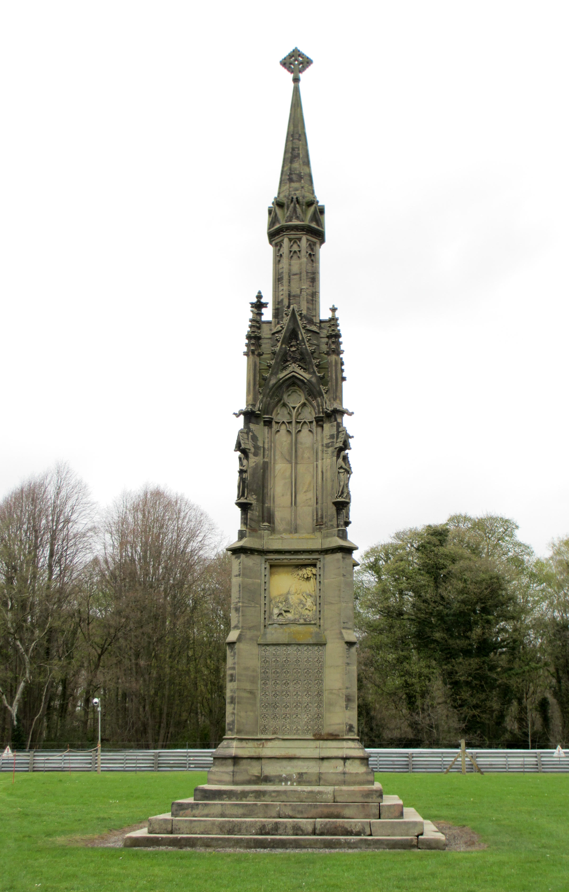 Monument to John Francis Egerton, and by Scott and Moffatt erected in 1846 or 1847